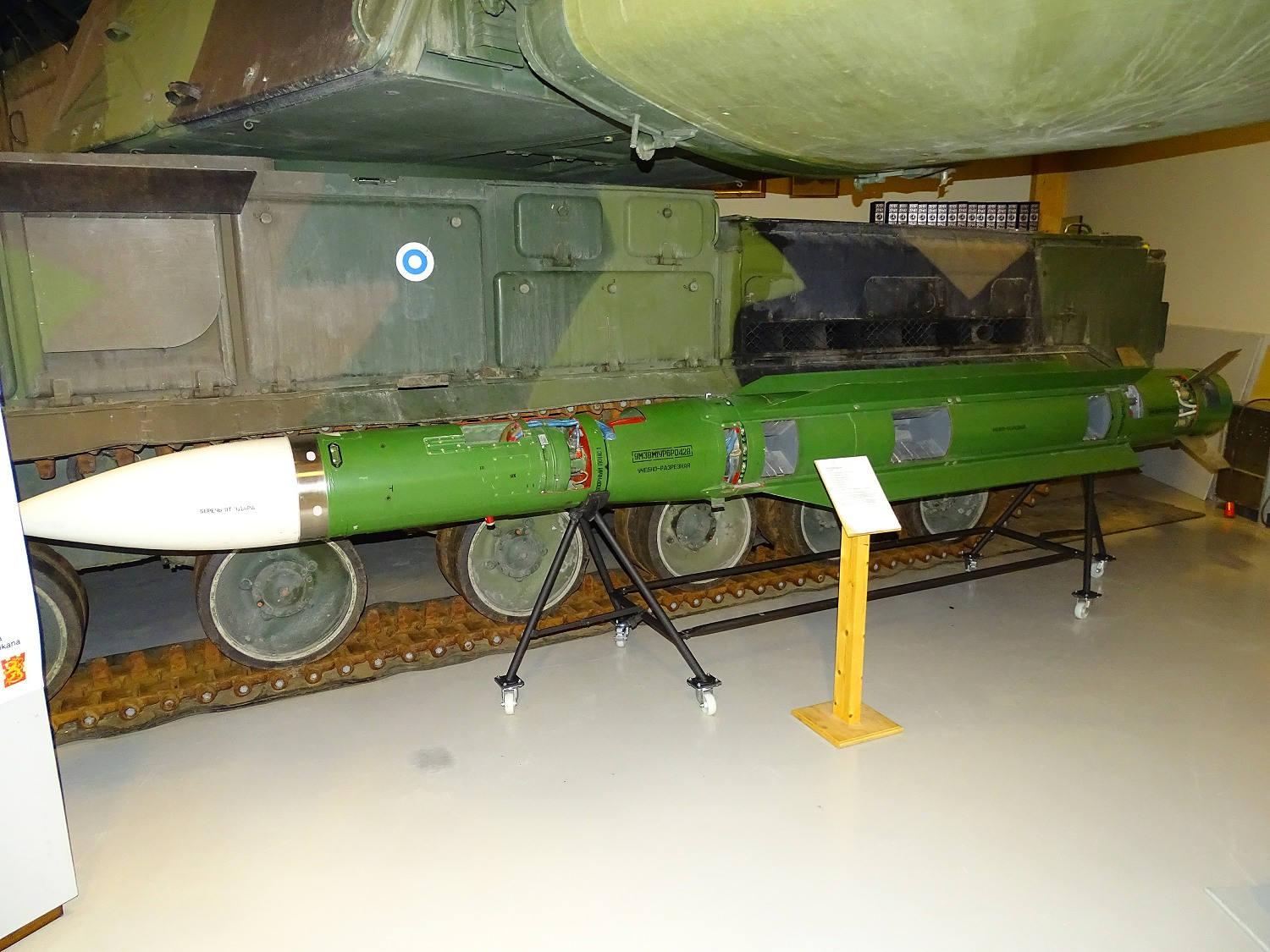 036 - BUK M1